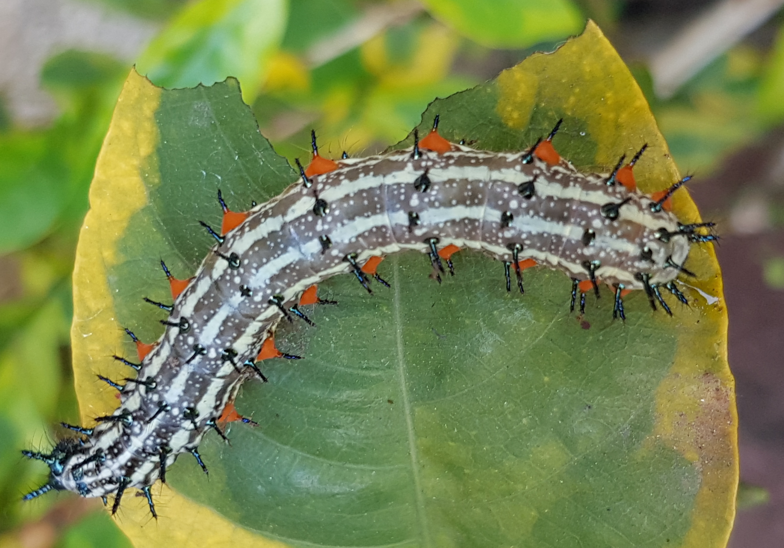 Doleschallia bisaltide philippensis (Autumn Leaf) larva on Graptophyllum pictum (Mindanao, Philippines)